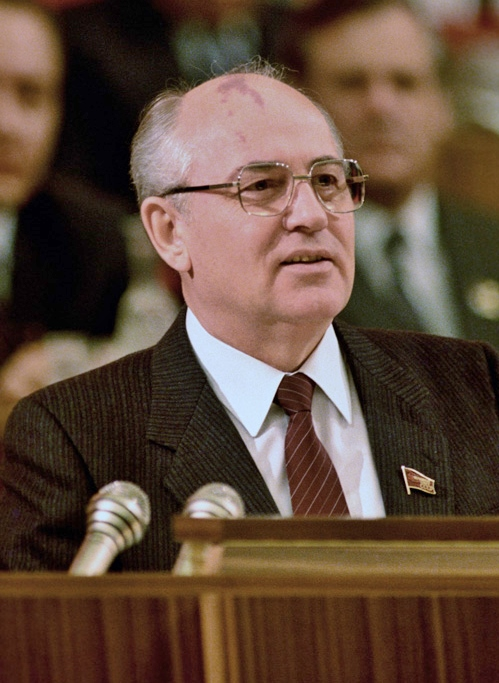 Выступает Генеральный секретарь ЦК КПСС Михаил Сергеевич Горбачев. XX съезд ВЛКСМ. Кремлевский Дворец съездов.